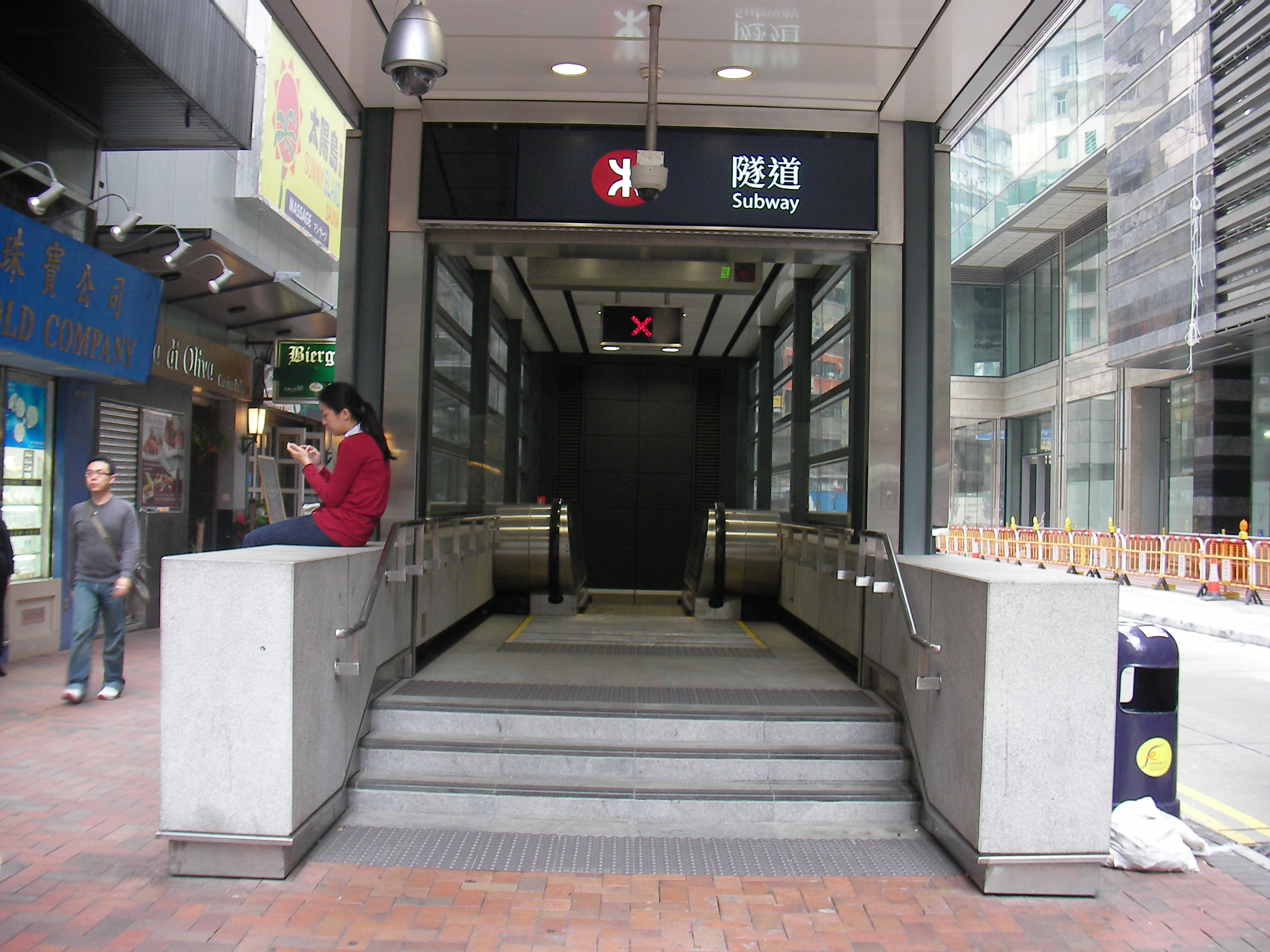 MTR East Tsim Sha Tsui Station Blemheim Avenue Subway Exit N2